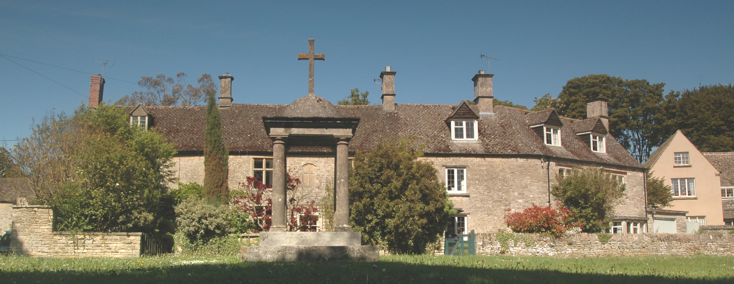 Terrace of stone 17th century cottages at Delly End, Hailey, Oxfordshire, with 20th century war memorial in front.